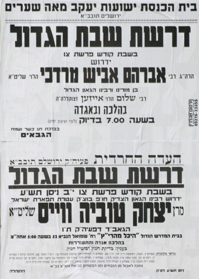 Poster in Mea Shearim